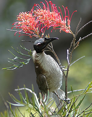 Bird, Noisy Friarbird, Philemon corniculatus